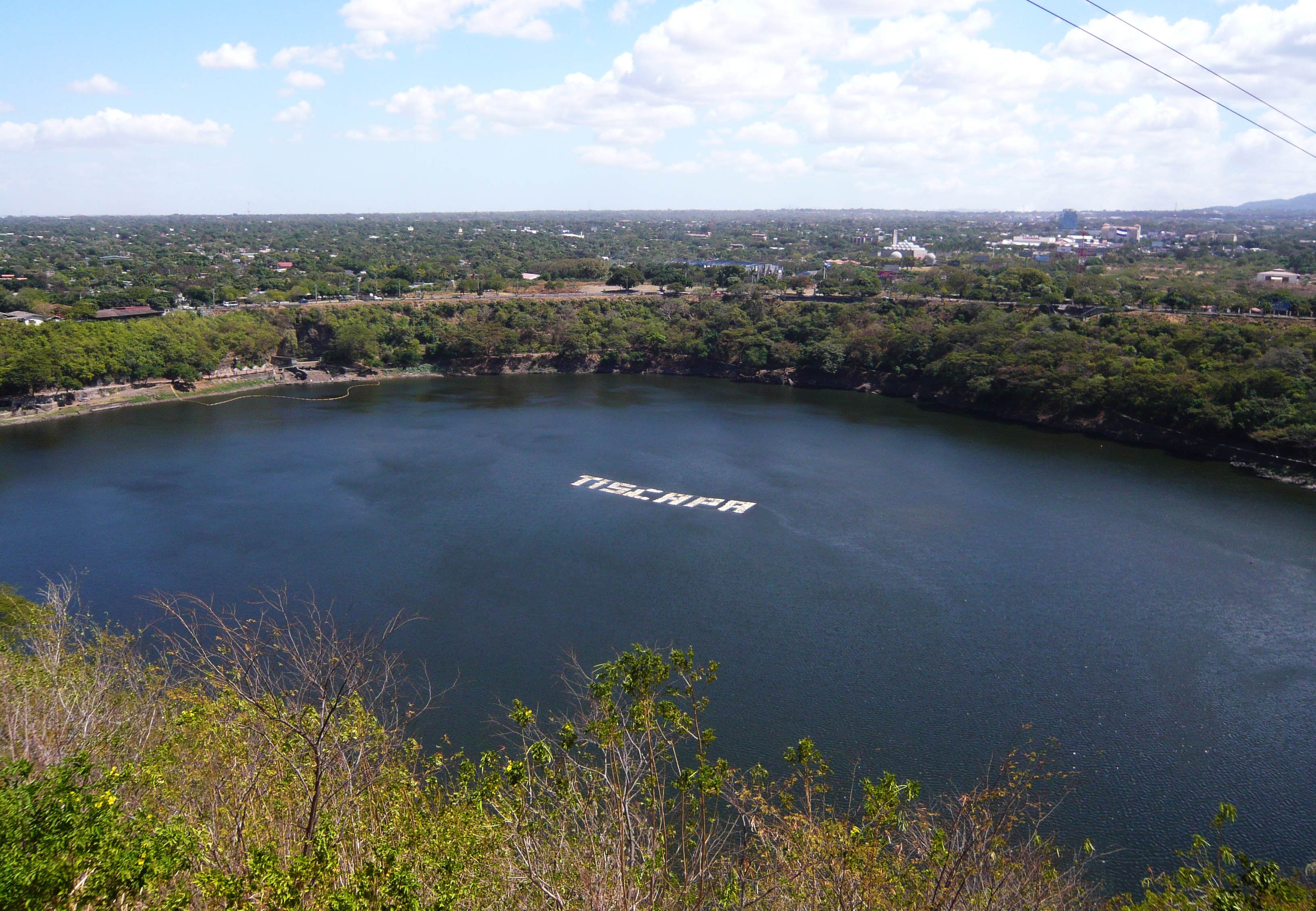 Laguna de Tiscapa in Managua, Nicaragua